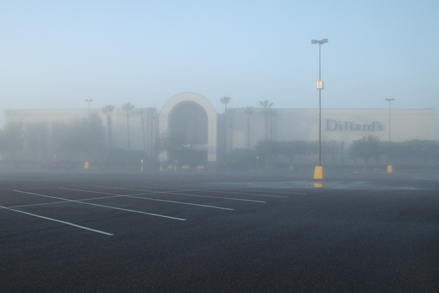 Foggy morning at Mall del Norte's Dillard's in Laredo, Texas